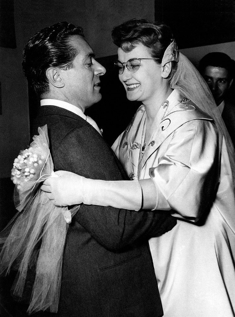 Italian singer and record producer Natalino Otto (Natale Codognotto) hugging his wife, Italian singer Flo Sandon's (Mammola Sandoni) on the day of their wedding. Italy, 1955.